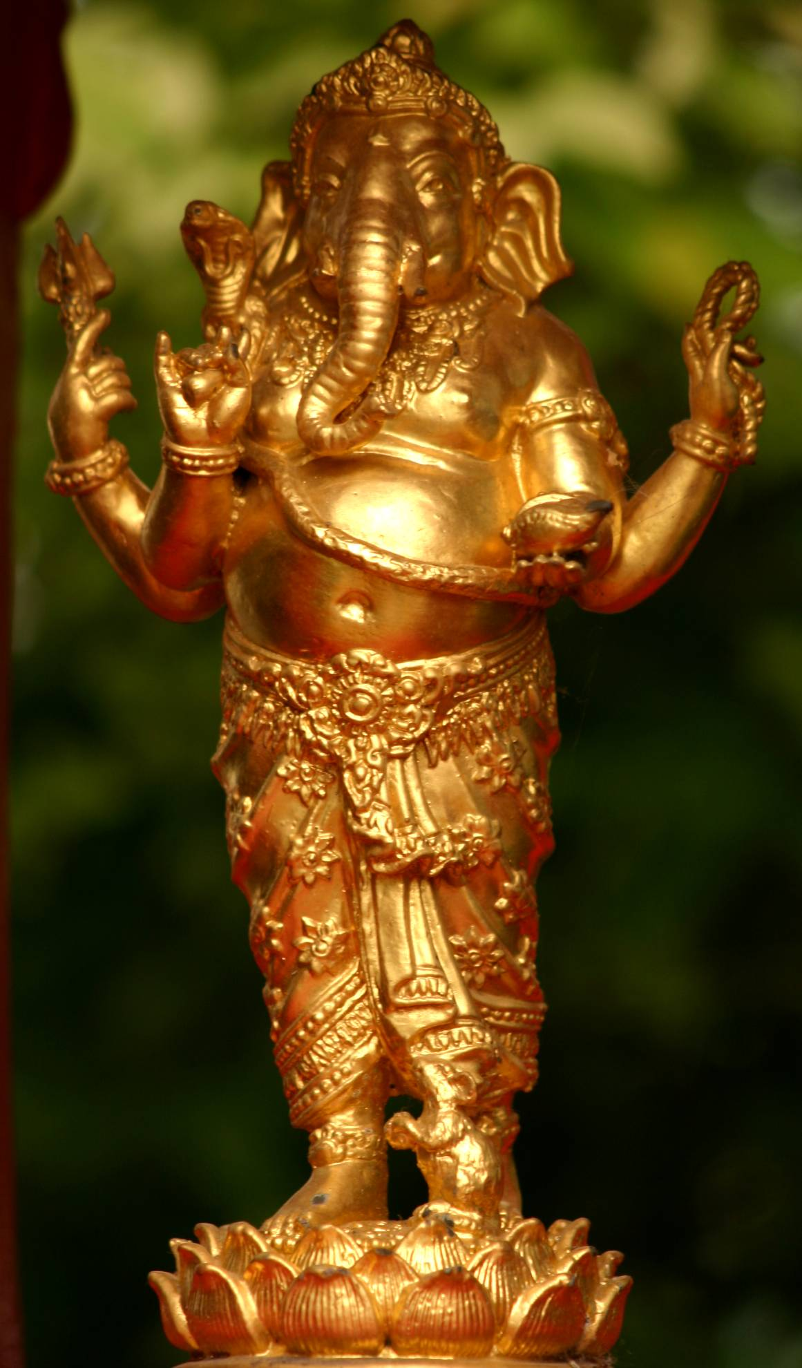 Ganesha, Ganpati, Ganapati, elephant headed deity of Hinduism Thailand